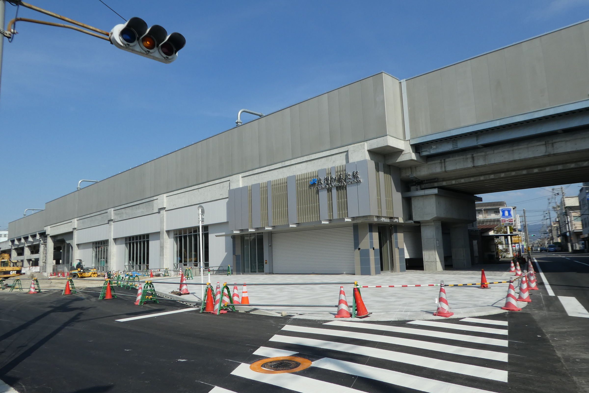 The exterior of Kizuri-Kamikita Station under construction in Osaka Prefecture, Japan